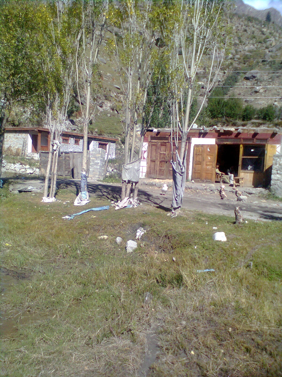 Astore Parashing